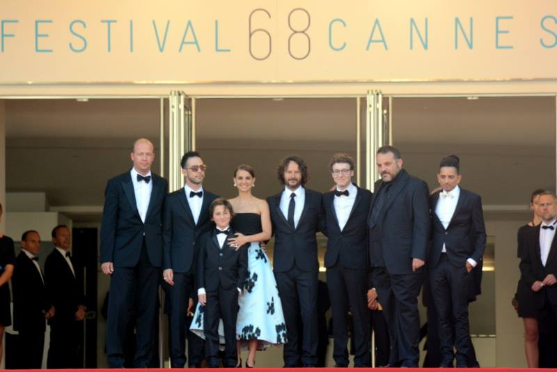 Director and stars of "A Tale of Love and Darkness" at the Cannes film festival